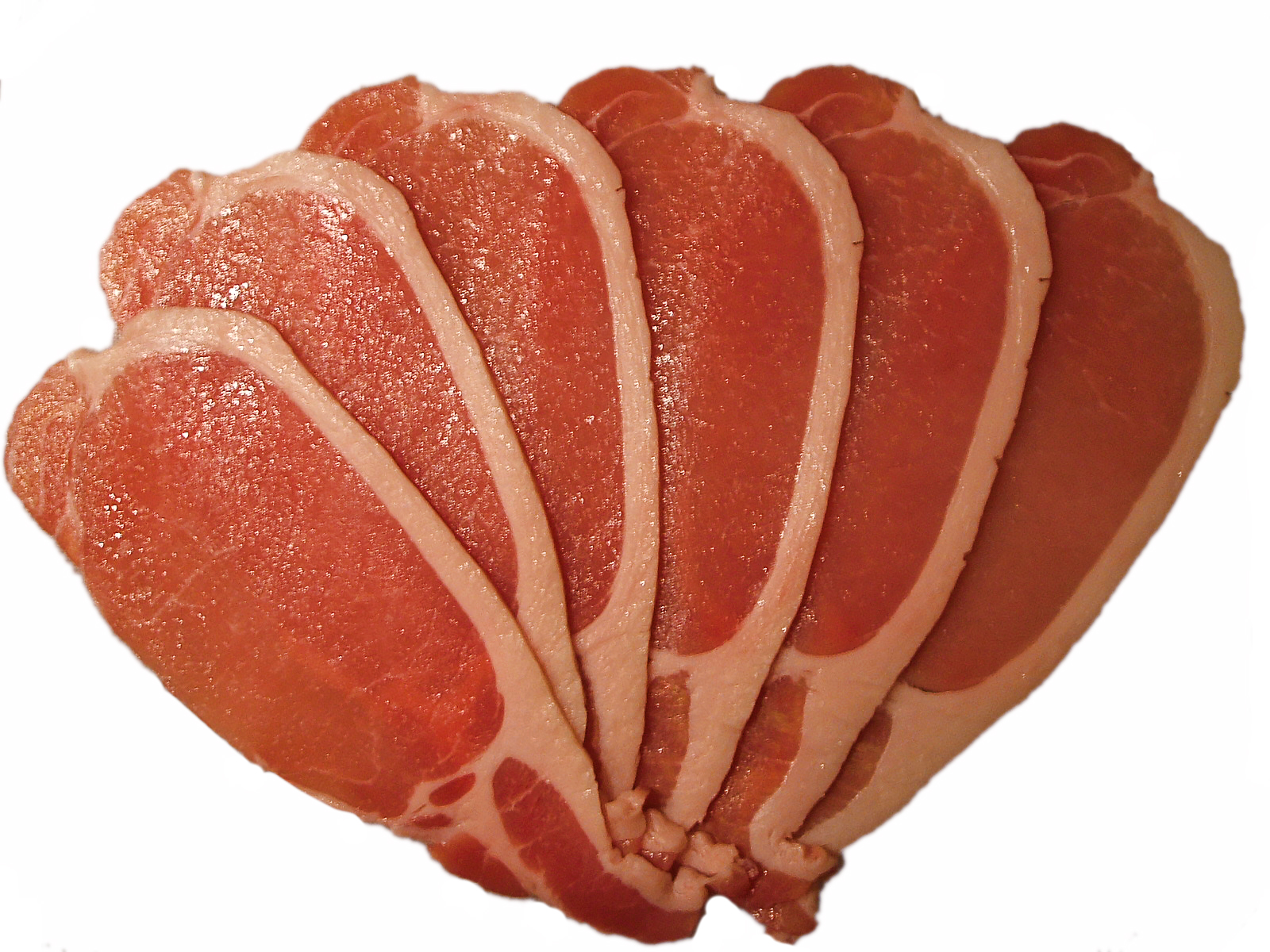 back bacon, better known as pork loin chops